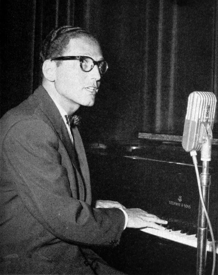 Tom Lehrer performing at UCLA's Royce Hall for Greek Week